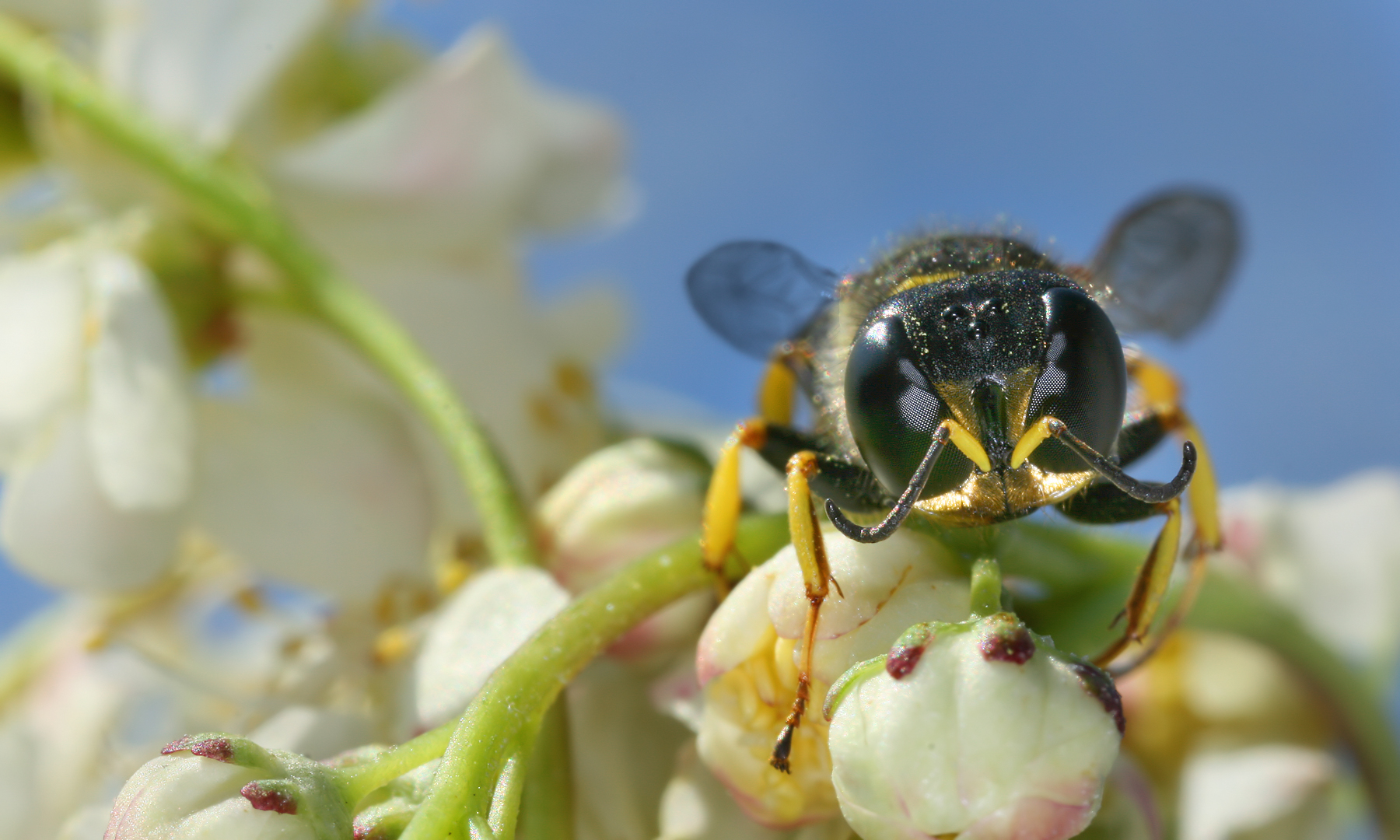 Description: A digger wasp (Ectemnius lapidarius).Hymenoptera (Hi-men-op-tura) is one of the larger orders of insects, comprising the sawflies, wasps, bees, and ants. The name refers to the membranous wings of the insects, and is derived from the Ancient Greek ὑμήν (humẽn): membrane and πτερόν (pteron): wing. The hindwings are connected to the forewings by a series of hooks called hamuli.